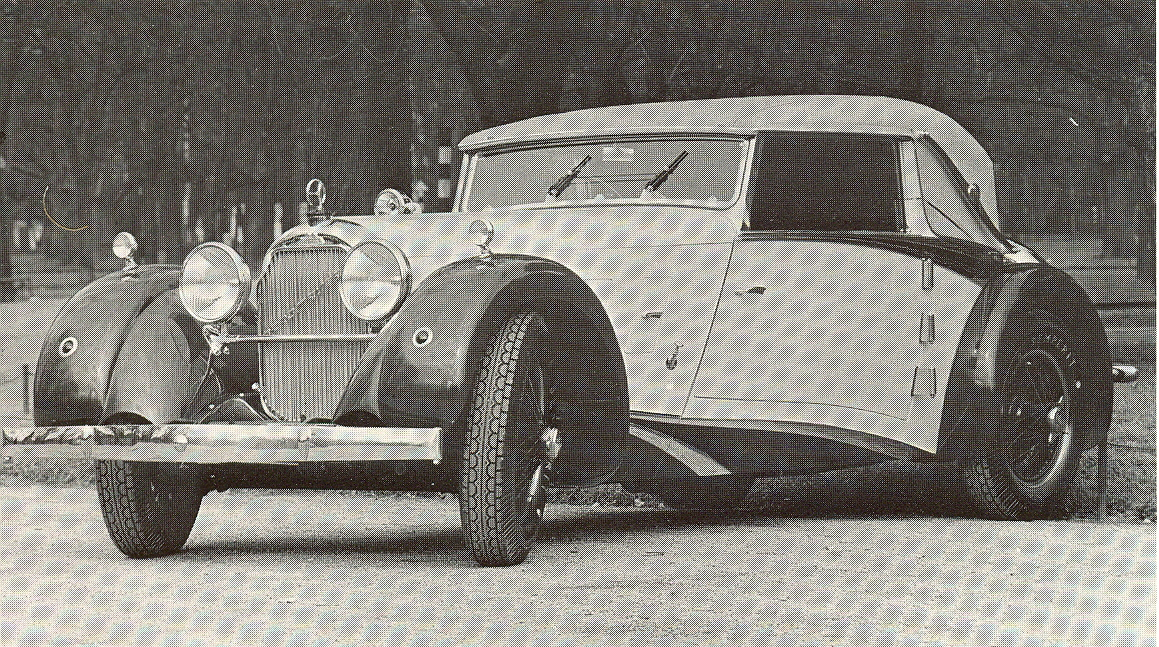 Austro-Daimler ADR Bergmeister Special Convertible (1933)